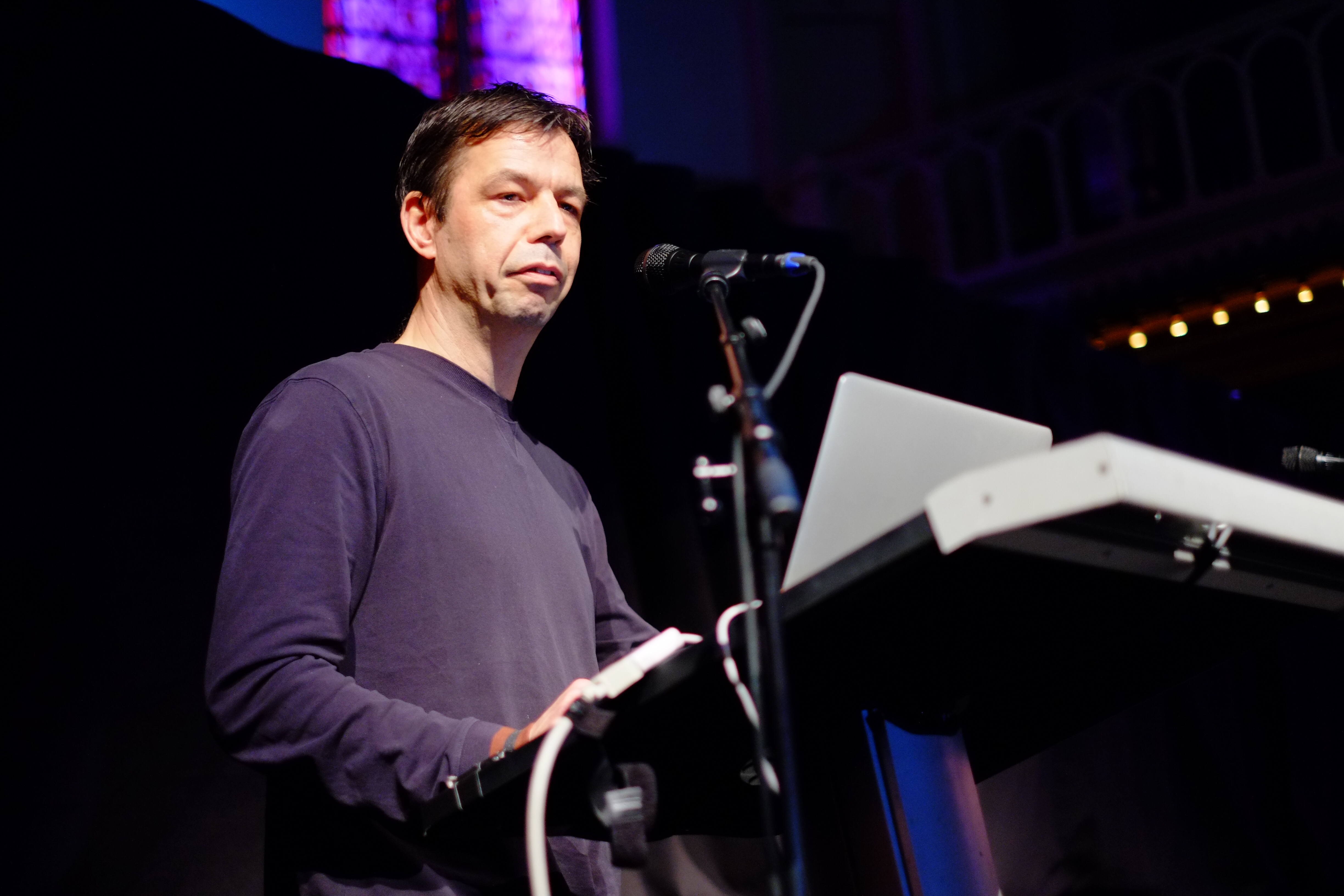 Geert Mul at the symposium Photography Research in the Digital Age